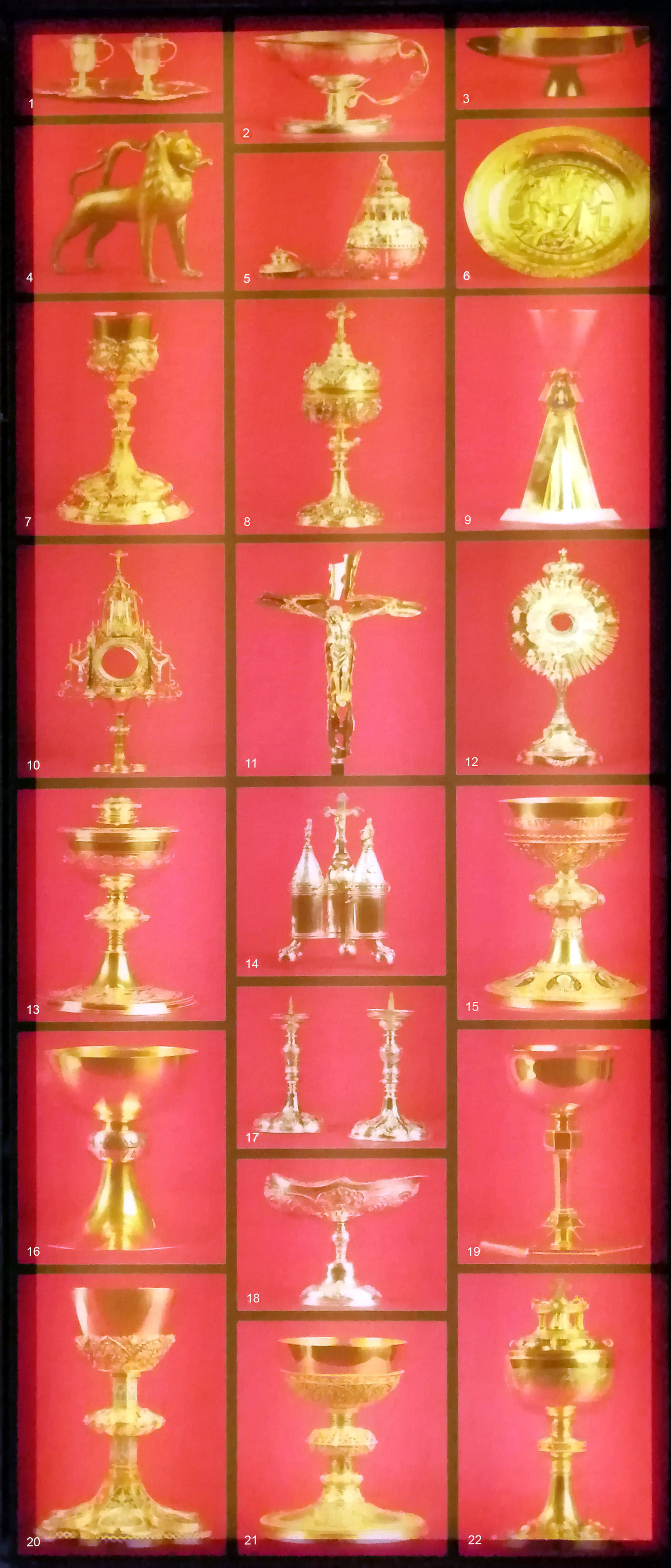 St. Dionysius - Darstellung des Kirchenschatzes in der Wort-Gottes-Kapelle